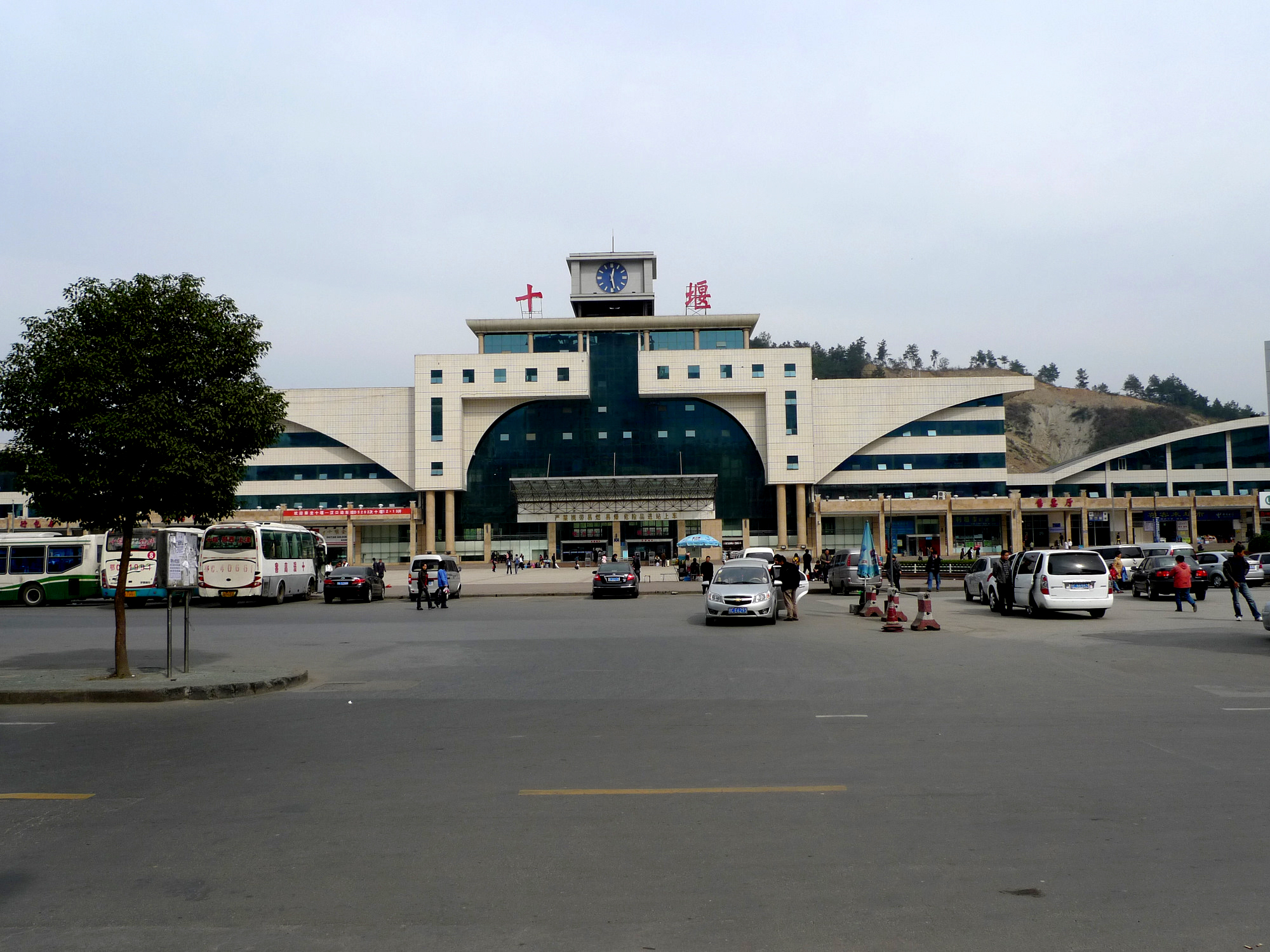 Shiyan Railway Station